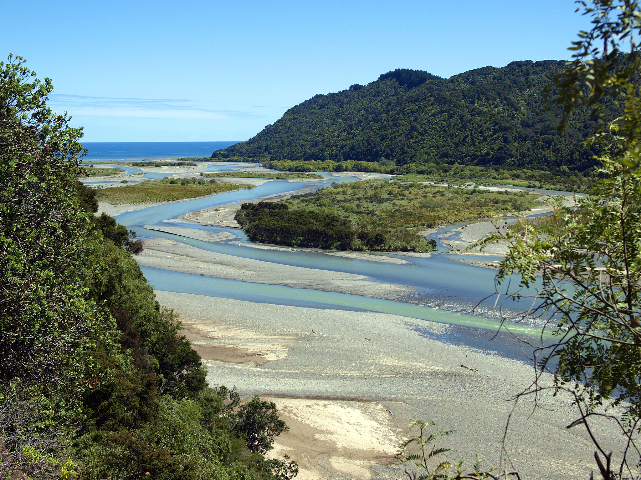 Motu River, Opotiki District, Bay of Plenty, North Island, New Zealand